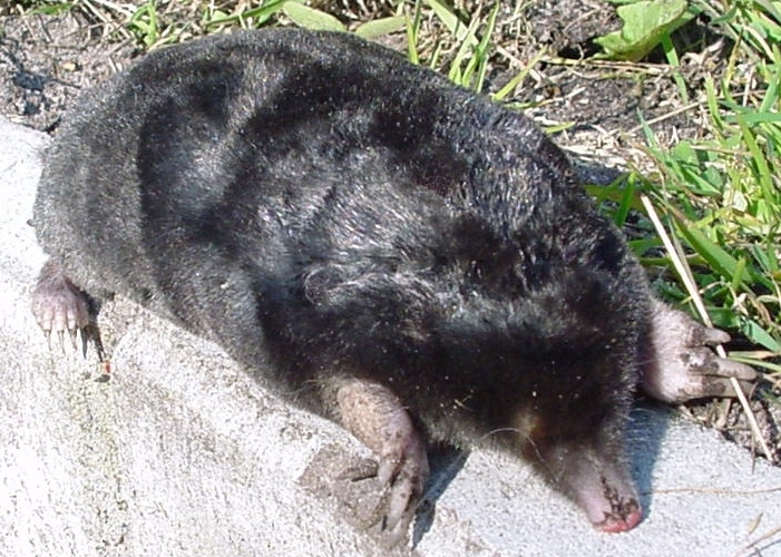 A European mole (Talpa europaea) which was caught by a cat.